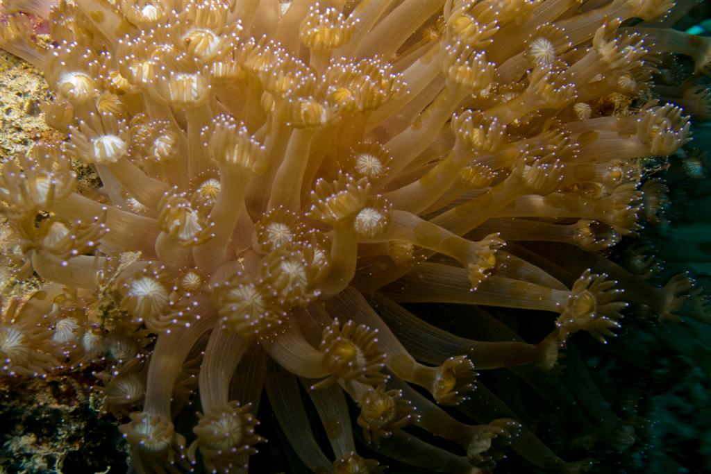 Anemone